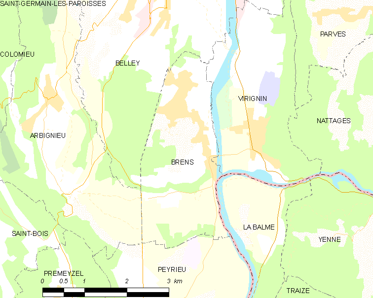 Map of French commune: Brens Map commune FR insee code 01061.png